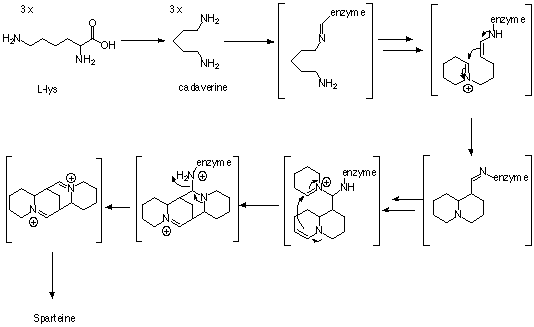 Biosynthesis of Sparteine